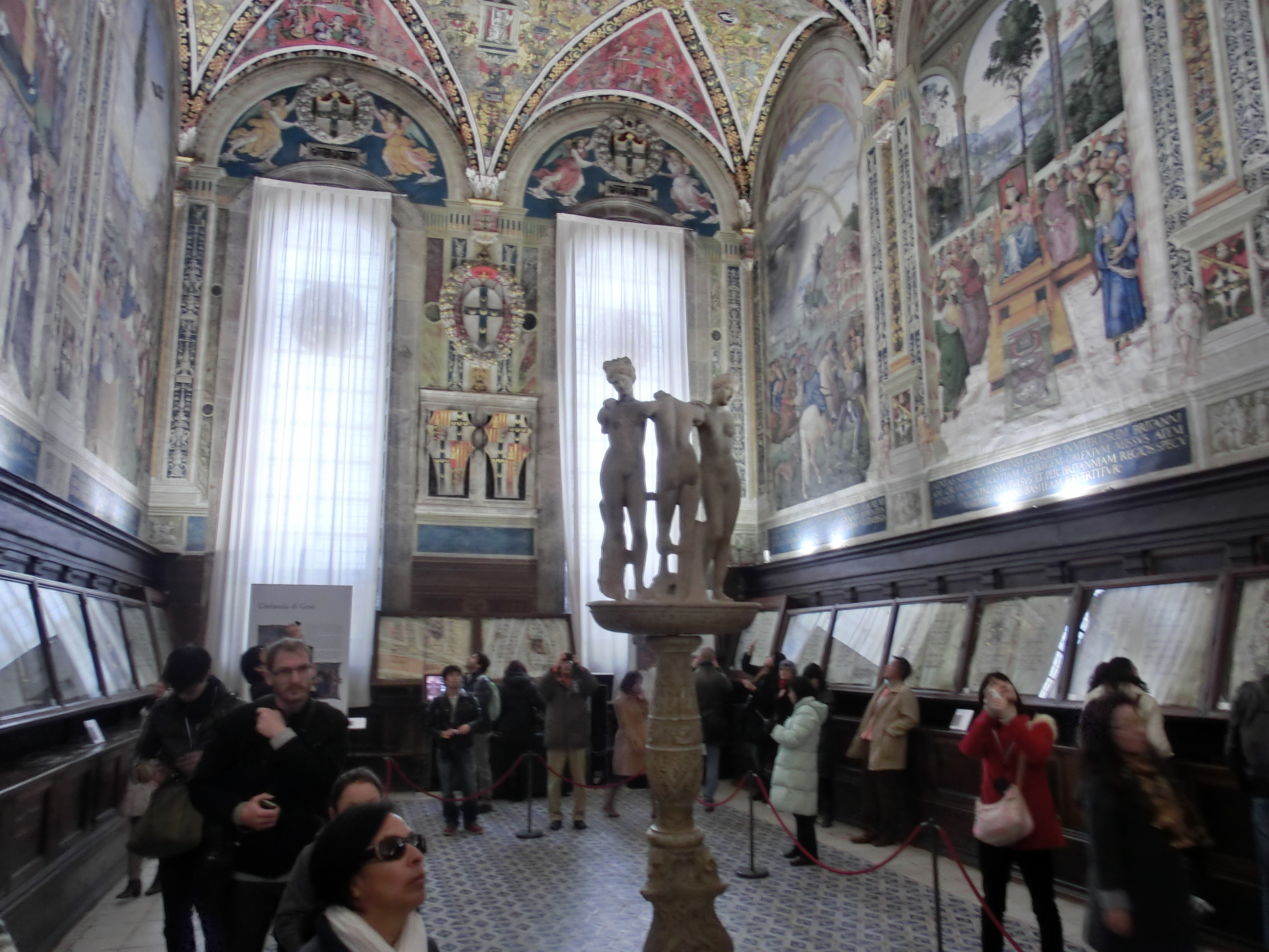 Duomo di Siena＿Piccolomini Library